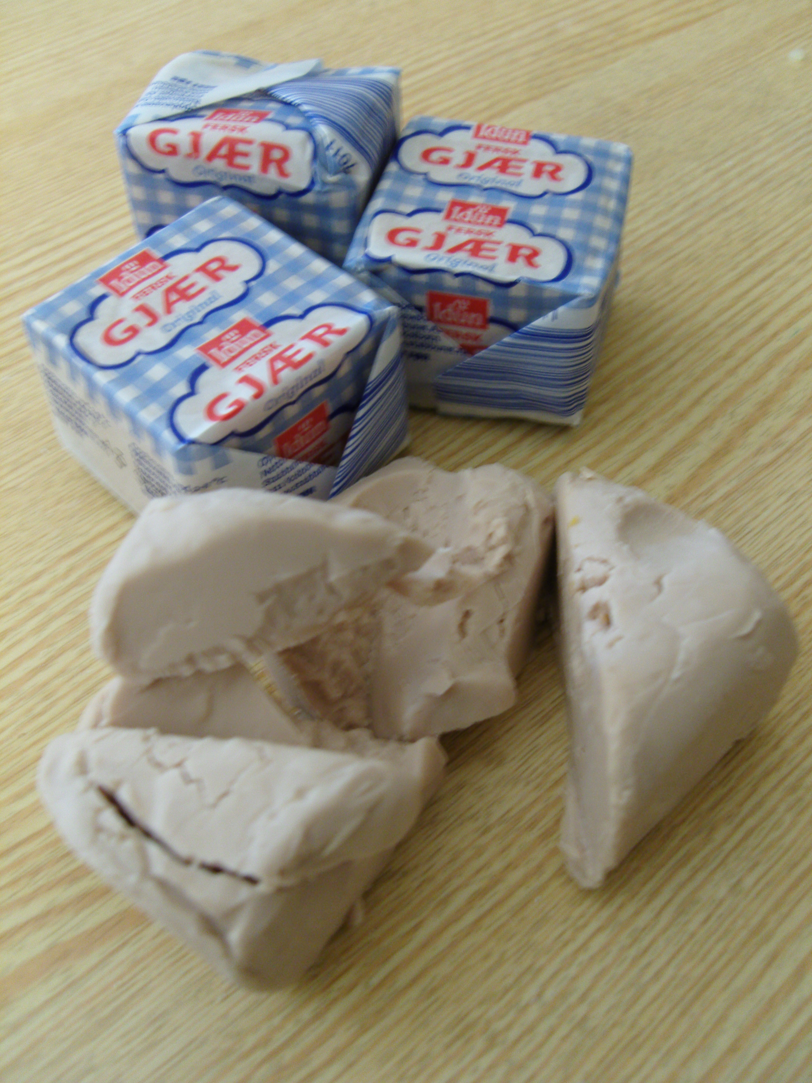 wet yeast, Norwegian package